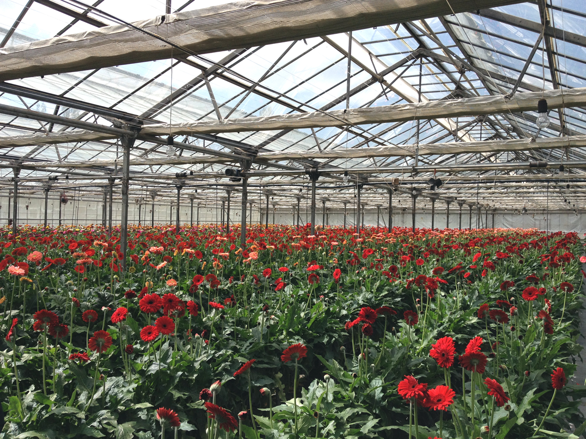 Greenhouse in Armenia.